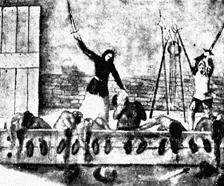 Ines Suarez during the defense of Santiago (1541)